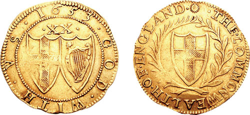 Commonwealth of England. 1649-1660. Unite (9.04 gm, 8h). Dated 1653 Coat-of-arms of England; mintmark: sun Coats-of-arms of England and Ireland. Schneider 341; North 2715; SCBC 3208. From the Dr. Thomas Dailey Collection.